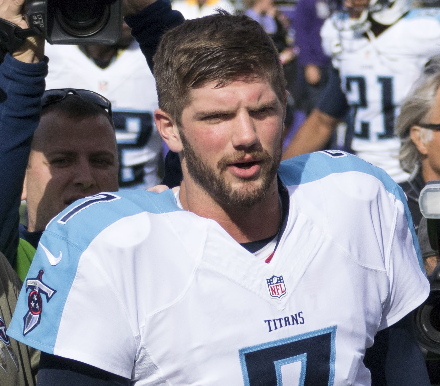 Tennessee Titans quarterback, Zach Mettenberger, in a game against the Baltimore Ravens on November 9, 2014.